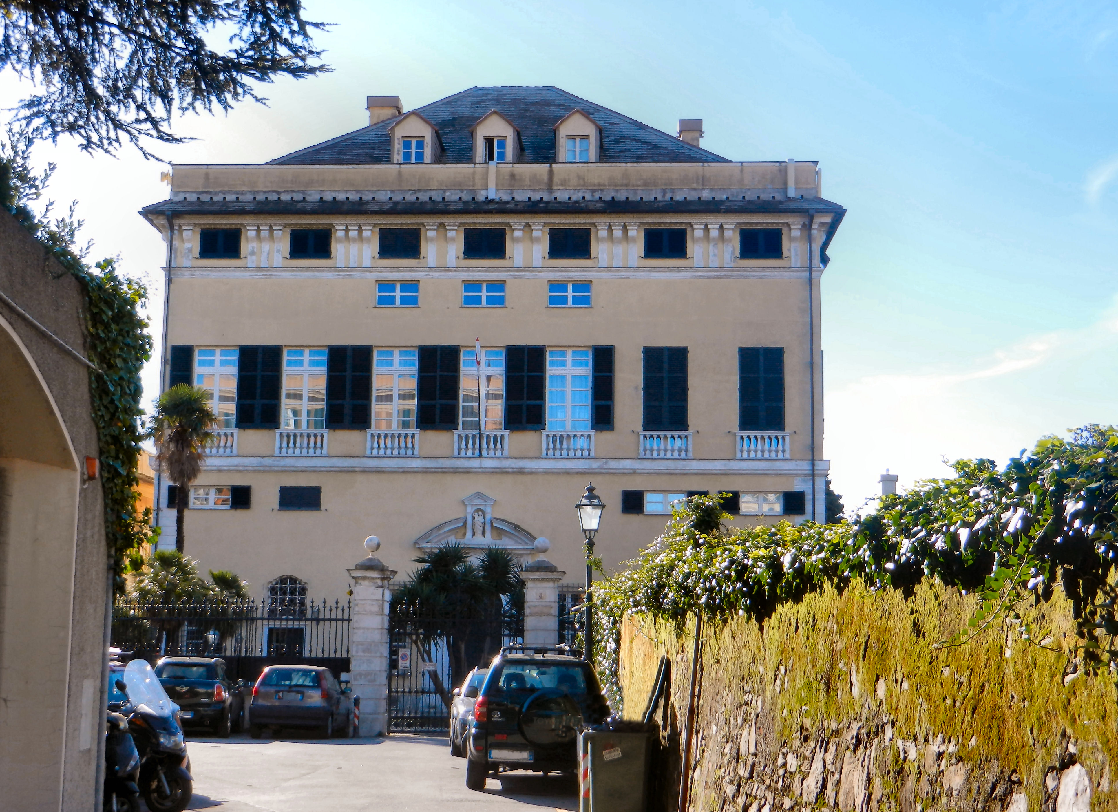 Genoa, quarter of Albaro, villa Rebuffo Gattorno